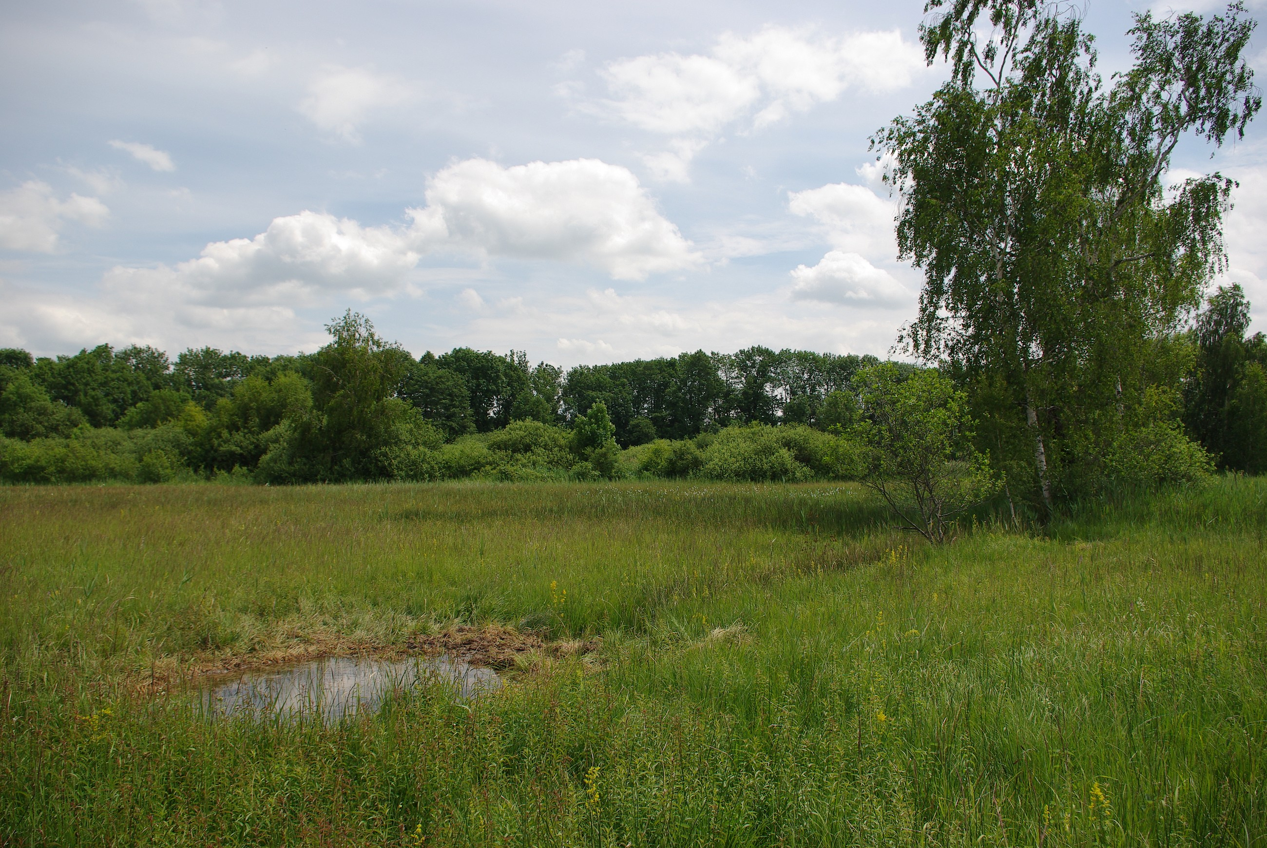 National natural monument Polabská černava in Mělník District, Czech Republic